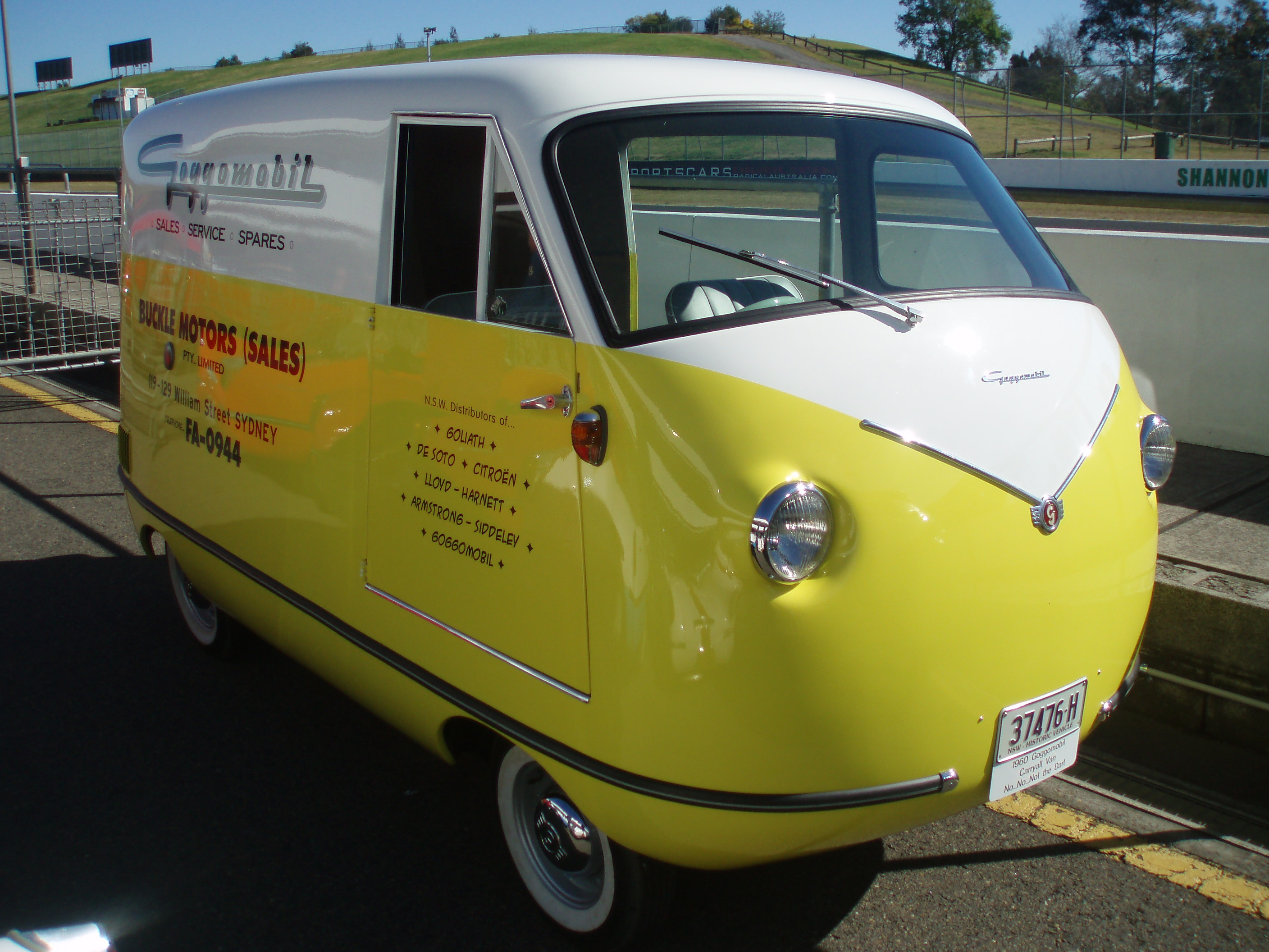 1960 Goggomobil Carryall panel van. Another of Bill Buckle's Australian designs based on the imported Goggomobil chassis. A shutter door in the left hand side is the only loading door in the whole van. This one is restored in the livery of Buckle Motors, the Australian distributors for Goggomobil. Taken at Shannon's Eastern Creek Classic 2008, held at Eastern Creek Raceway Sydney.